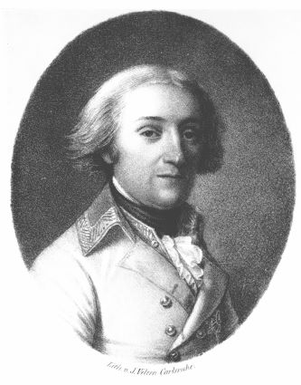 Karl Aloys zu Fürstenberg 1760-1799. General officer in Habsburg military service during the War of the Bavarian Succession and the French Revolutionary Wars